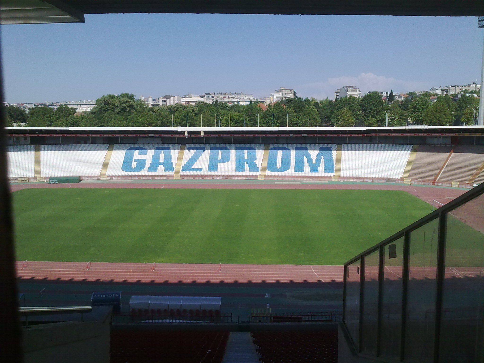 East tribune of the Red Star Belgrade stadium